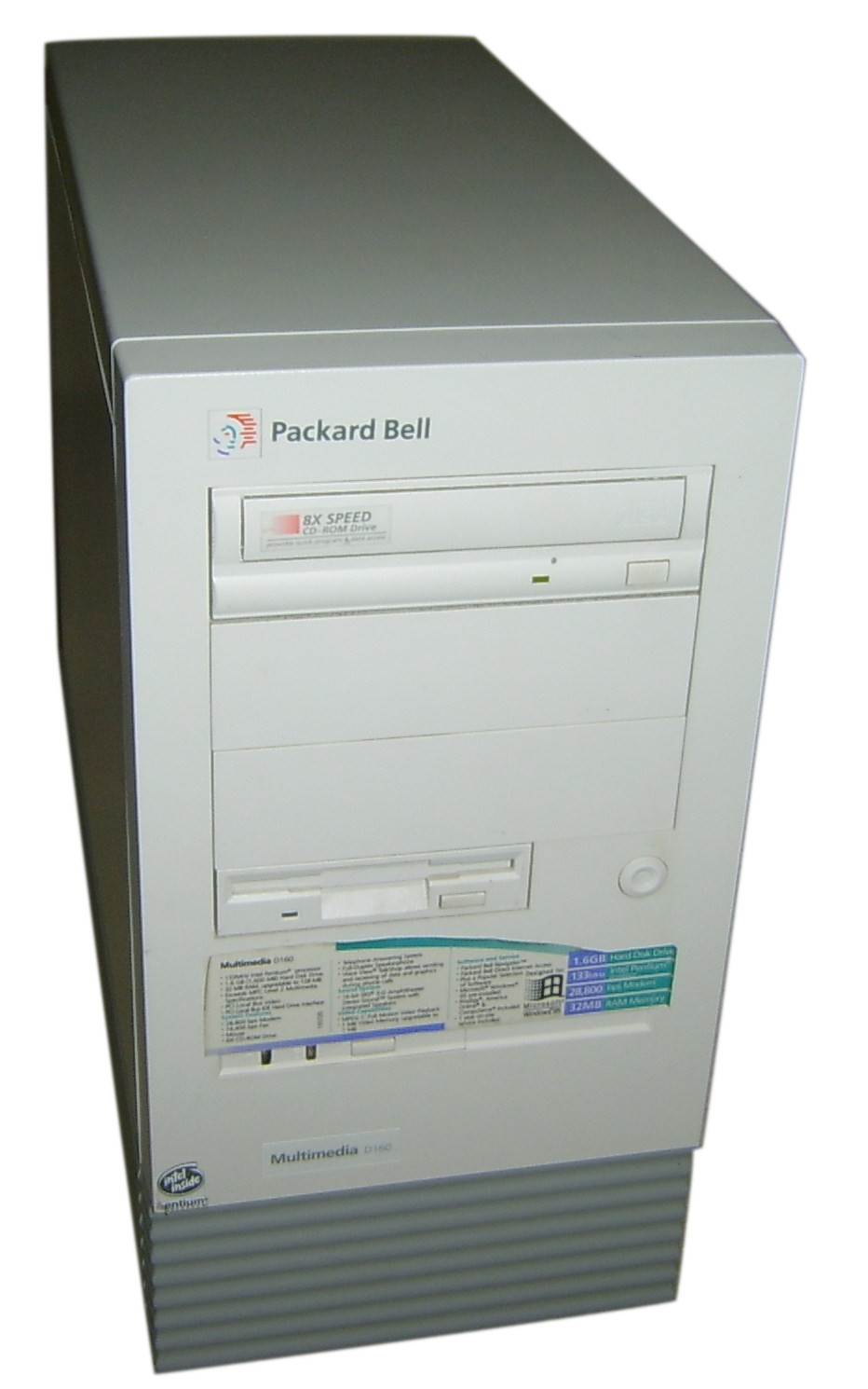 Photo of a 1995 Packard Bell Multimedia D160 desktop computer, part of my collection of computers and electronics. Near perfect condition. Background cropped.